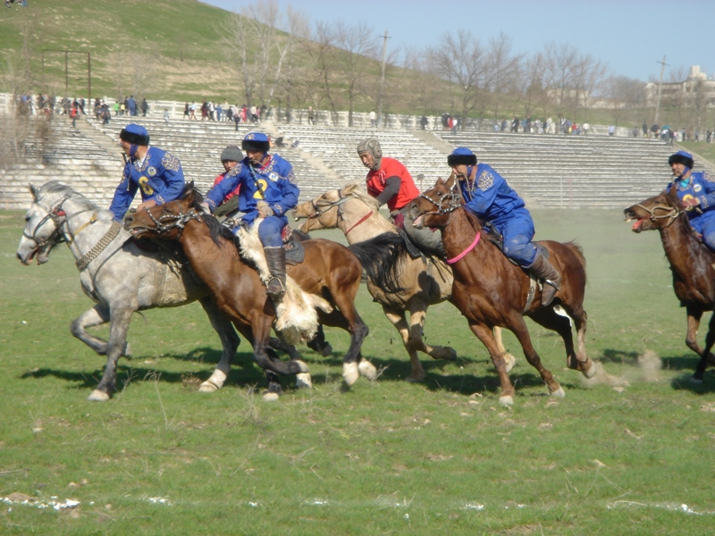 Kokpar.